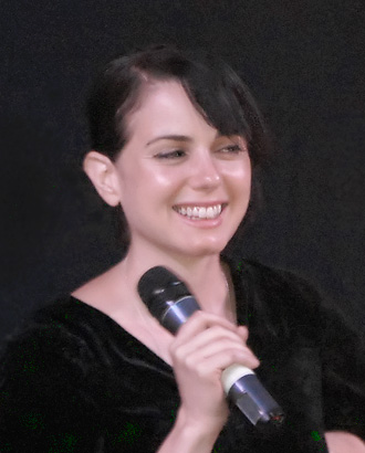 Canadian actress Mia Kirshner in 2009, during interview